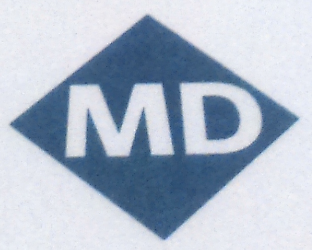 Logo of MD Physician Services, an organization affiliated with the Canadian Medical Association responsible for the support of Canadian medical students and resident physicians